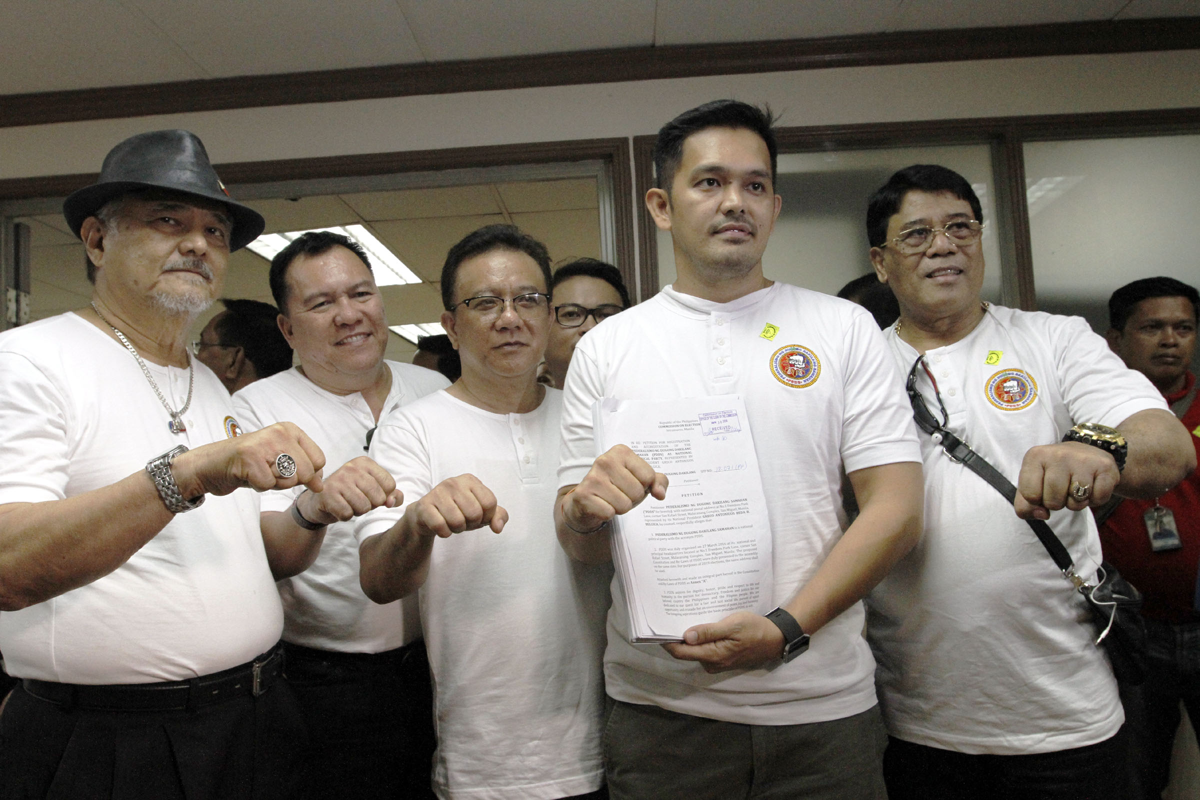 Pederalismo ng Dugong Dakilang Samahan (PDDS) President Greco Antoniuos Beda B. Belgica (2nd from right), his father Butch Belgica (left) and PDDS members flash a very familiar pose of President Duterte while carrying copies of their petition for Registration and Accreditation of the Pederalismo ung Dugong Dakilang Samahan (PDDS) as a national political party filed before the Commission on Elections head office in Intramuros Manila on Monday (April 30,2018) (PNA photo by Avito C. Dalan)